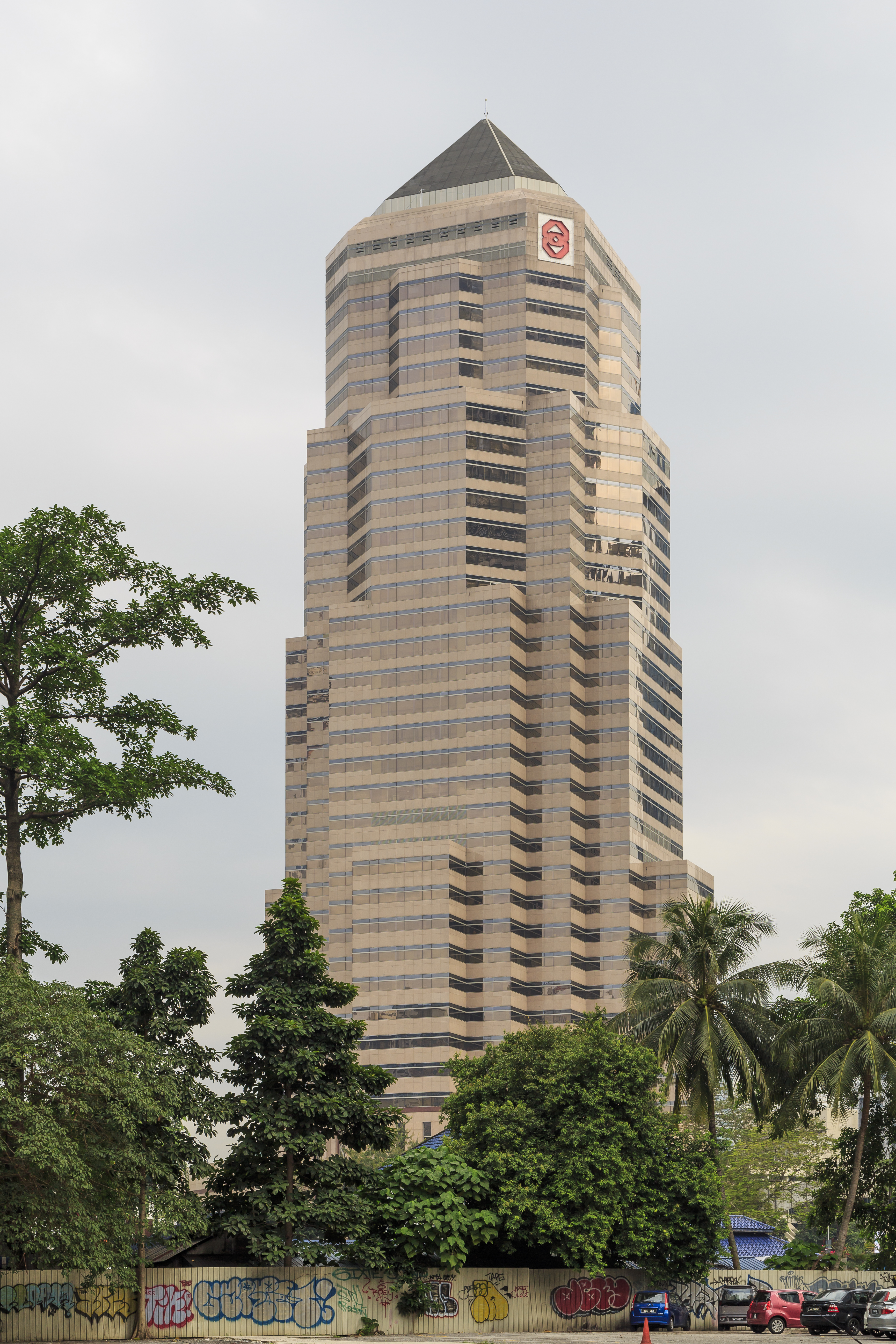 Kuala Lumpur, Malaysia: Menara Public Bank (170 m high)